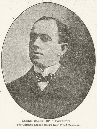 Photograph of Chicago Cubs baseball player Doc Casey